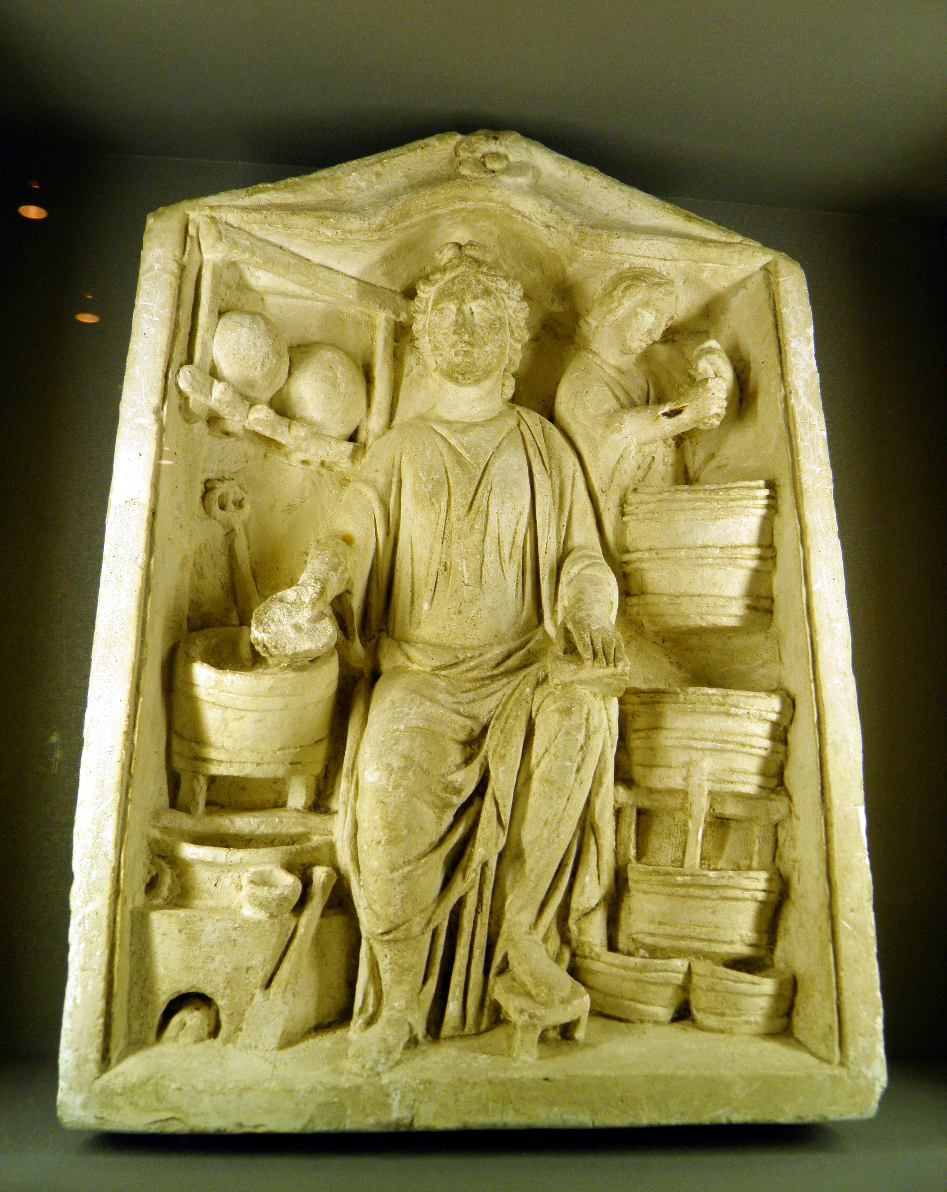 In Roman religion, Meditrinalia was an obscure festival celebrated on October 11 in honor of the new vintage, which was offered in libations to the gods for the first time each year. The festival may have been so called from medendo, because the Romans then began to drink new wine, which they mixed with old and which served them instead of physic. Little information about the Meditrinalia survived from early Roman religion, although the tradition itself did. It was known to be somehow connected to Jupiter and to have been an important ceremony in early agricultural Rome, but beyond that, only speculation exists. Meditrina was a Roman goddess who seems to have been a late Roman invention to account for the origin of Meditrinalia. The earliest account of associating the Meditrinalia with such a goddess was by 2nd century grammarian Sextus Pompeius Festus, on the basis of which she is asserted by modern sources to be the Roman goddess of health, longevity and wine, with an etymological meaning of "healer" suggested by some.